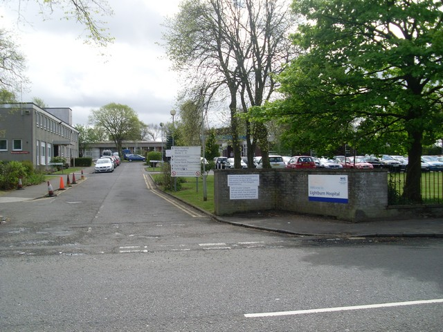 Lightburn Hospital Old folks' care hospital in the East End. Has a specialist unit for dealing with stroke patients.